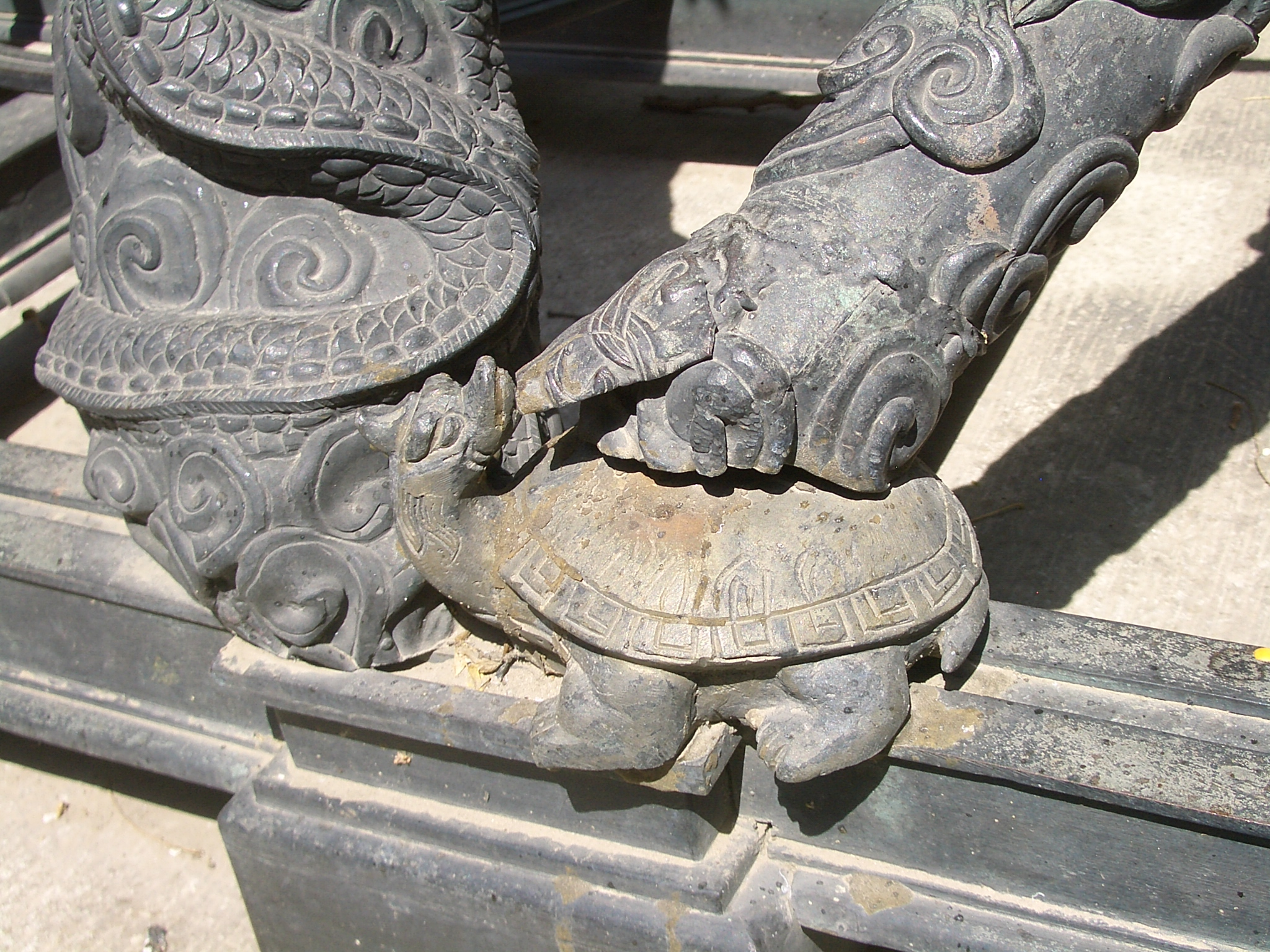 A simplified armilla on the grounds of the Beijing Ancient Observatory. Made in 1439 (along with the Armillary sphere), it is supported by dragons and turtles